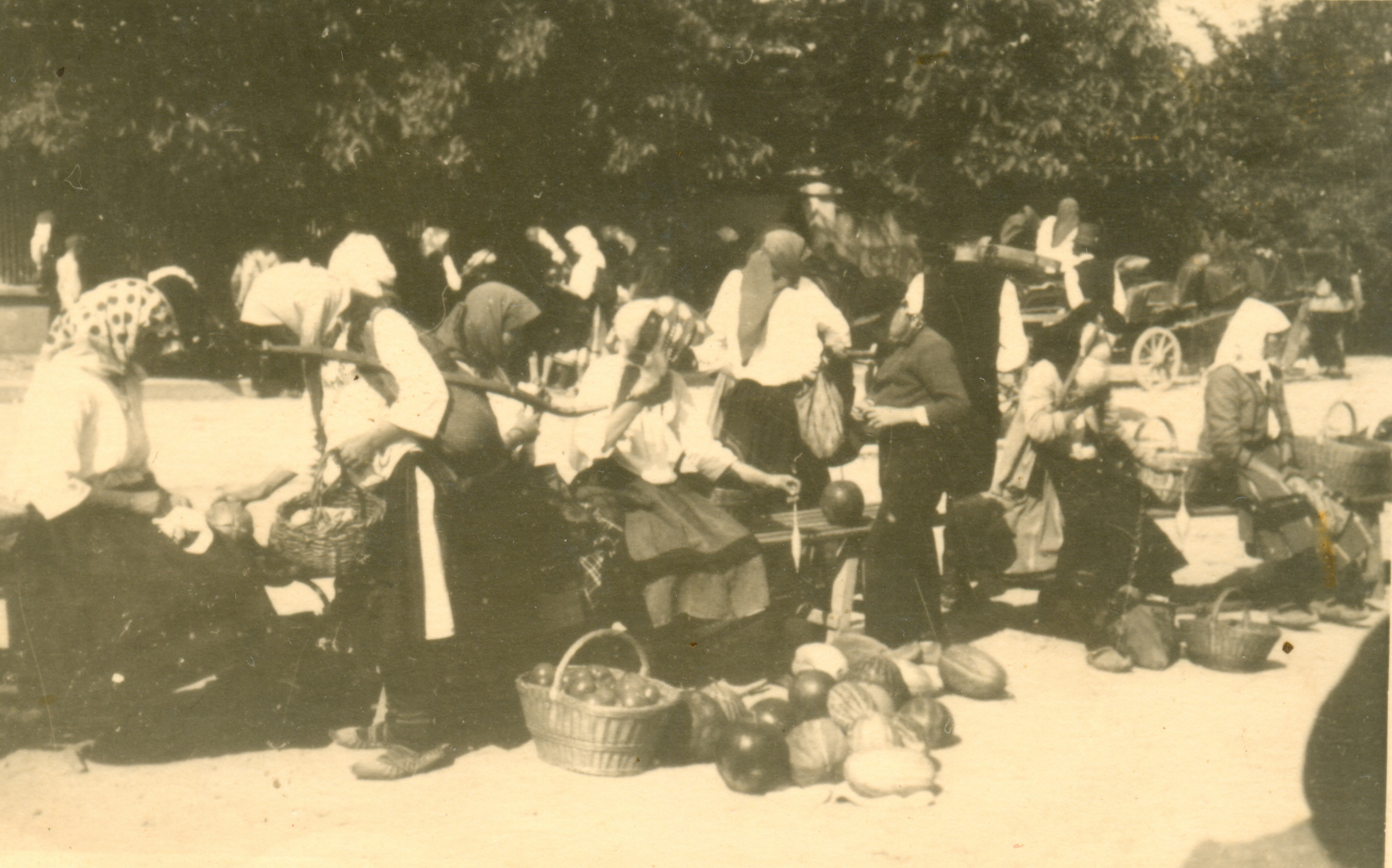 Street market in Negotin in the thirties of the last century Srpski (latinica): Pijaca u Negotinu tridesetih godina prošlog veka